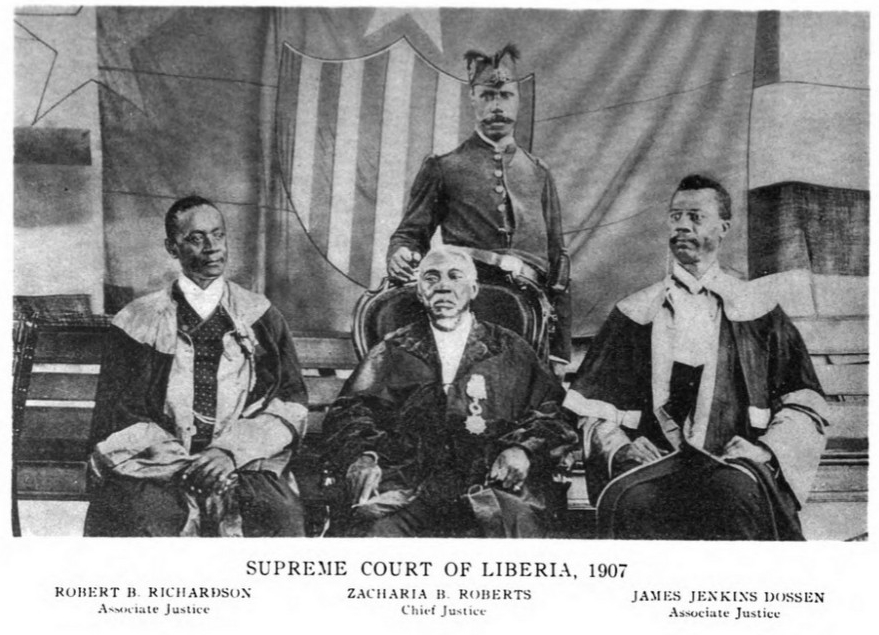 Photograph Supreme Court of Liberia. Illustration from Cases decided in the Supreme Court of the Republic of Liberia